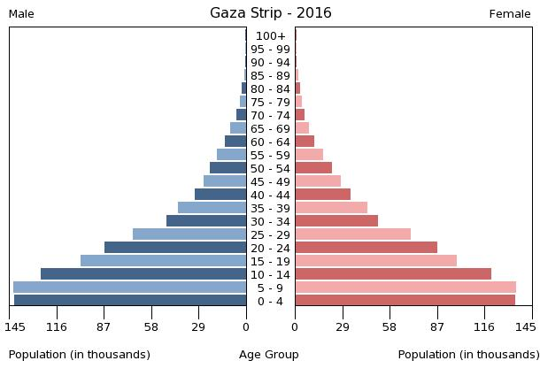 The population pyramid of Gaza Strip illustrates the age and sex structure of population and may provide insights about political and social stability, as well as economic development. The population is distributed along the horizontal axis, with males shown on the left and females on the right. The male and female populations are broken down into 5-year age groups represented as horizontal bars along the vertical axis, with the youngest age groups at the bottom and the oldest at the top. The shape of the population pyramid gradually evolves over time based on fertility, mortality, and international migration trends.